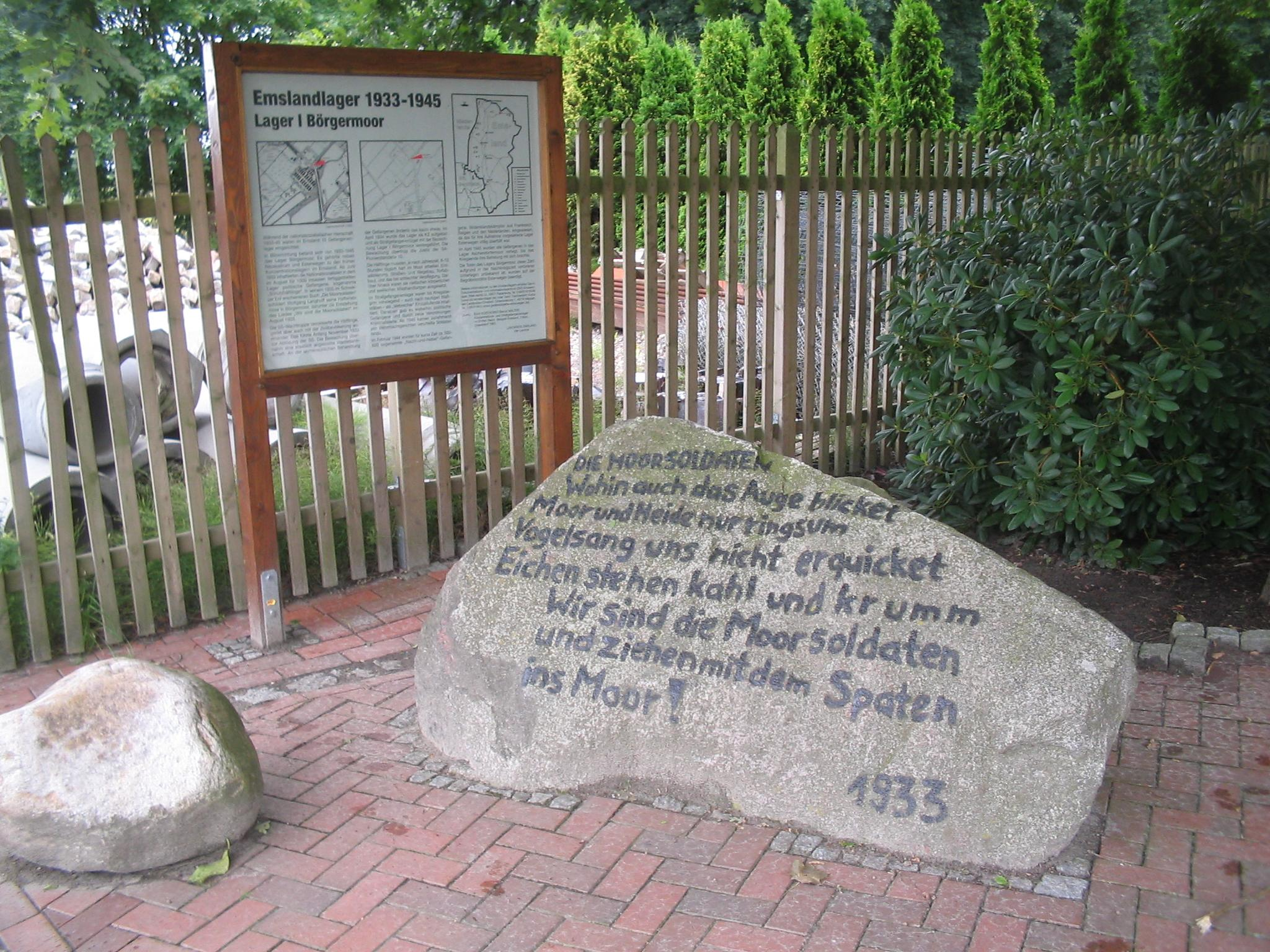 Former memorial at the entry site of the former Nazi concentration camp Börgermoor at Surwold, near Papenburg, Emsland, Germany. The text on the stone is from the prisoner-composed song "Moorsoldaten" - known in English as "The Peat-Bog Soldiers"